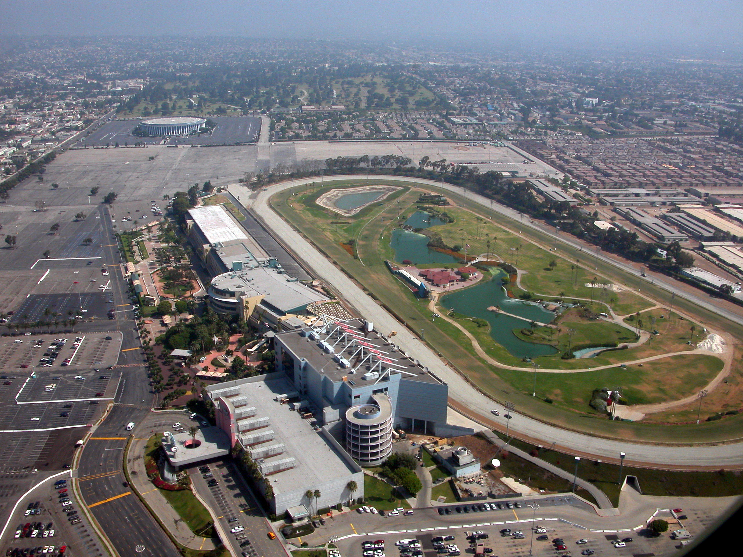 Hollywood Park Racetrack — in Inglewood, Greater Los Angeles area, California. Not within actual Hollywood, located 10 miles to its south near LAX. The Forum, a round indoor arena, is in upper left. Closing in 2013, for housing/commercial redevelopment.